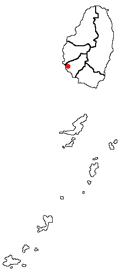 Layou, Saint Vincent and the Grenadines Location Map; created with the GIMP.